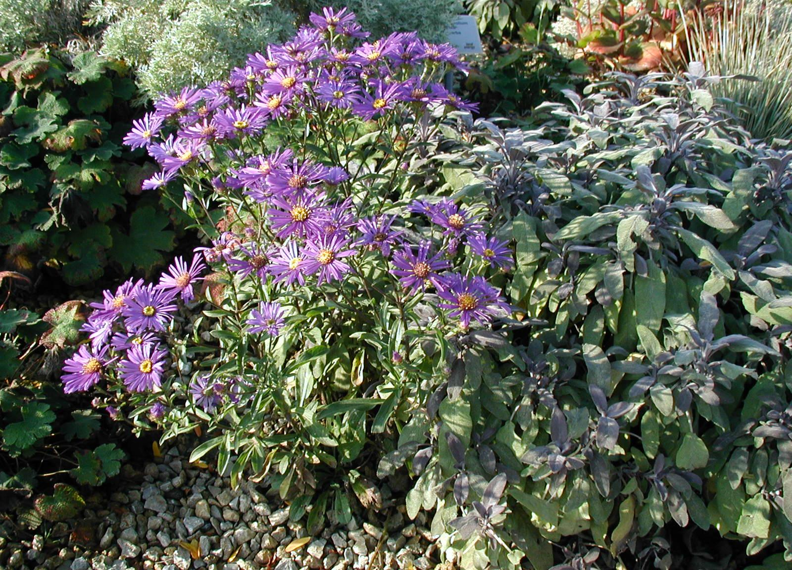 Aster dumosus: Habit. (This is probably a cultivar of Symphyotrichum novi-belgii, often confused in cultivation).